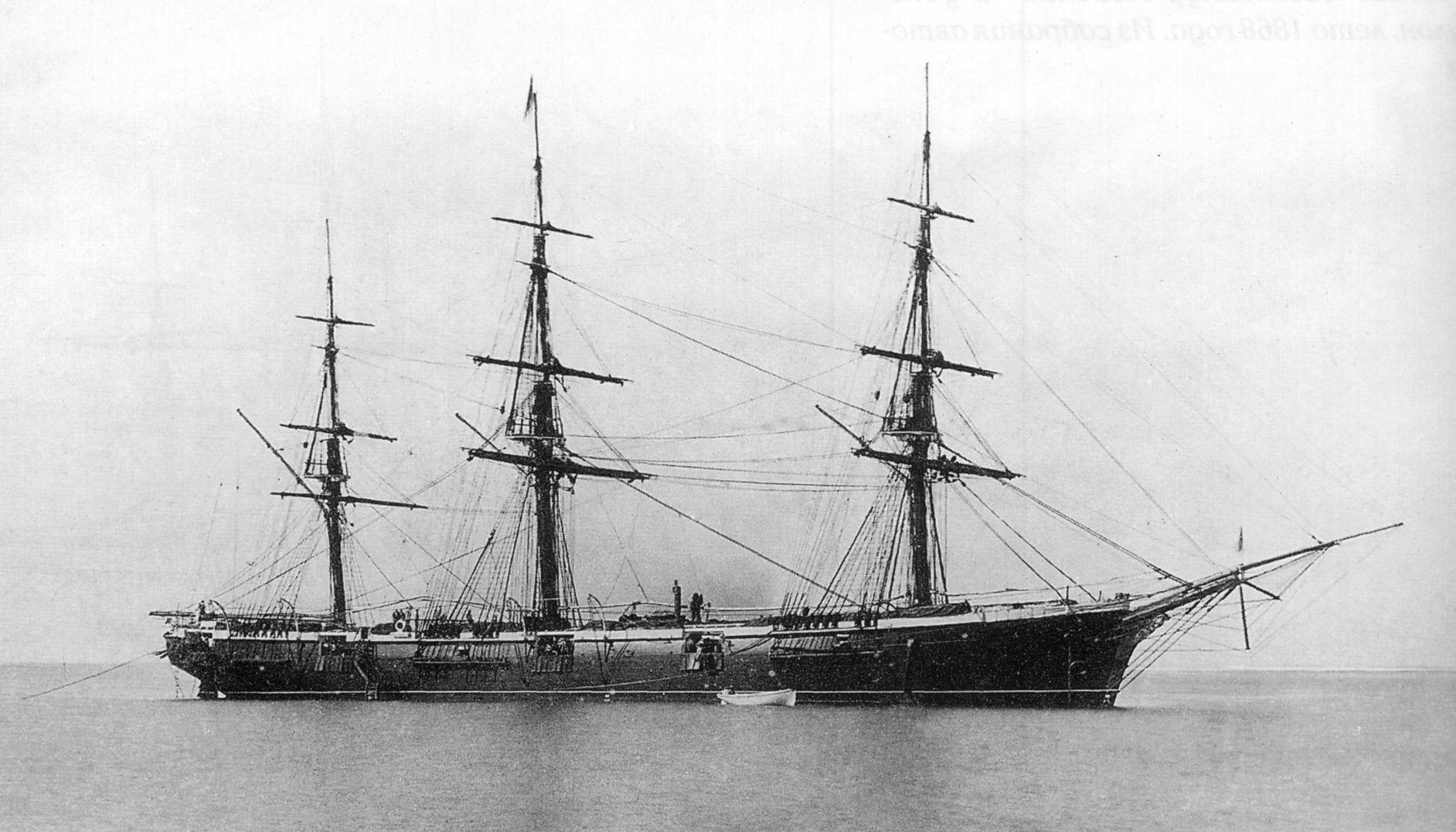 Imperial Russian corvette Askol'd in Honolulu.